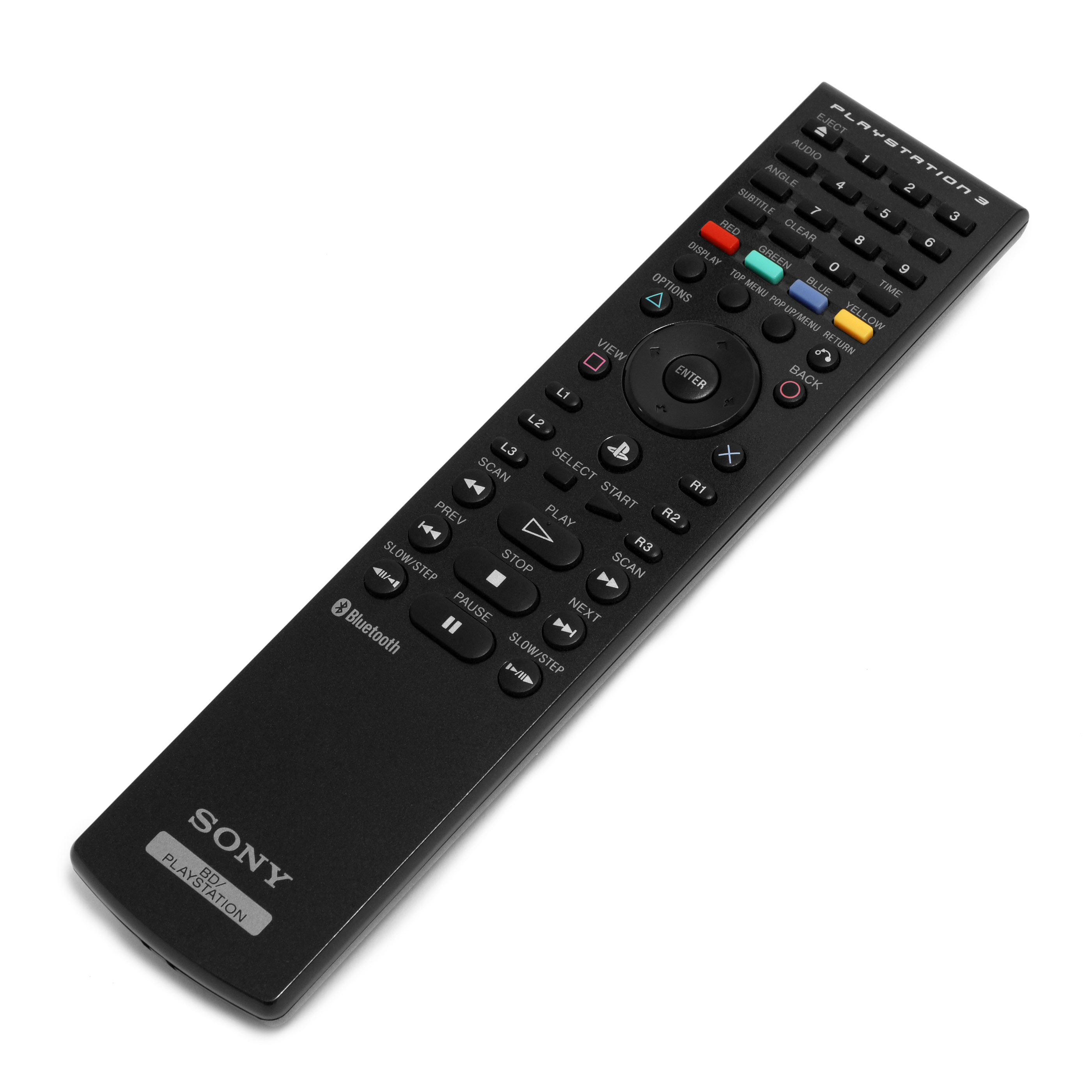 The Bluetooth remote for the PlayStation 3. One of the few remotes that work with the PS3 due to its lack of an infrared port.